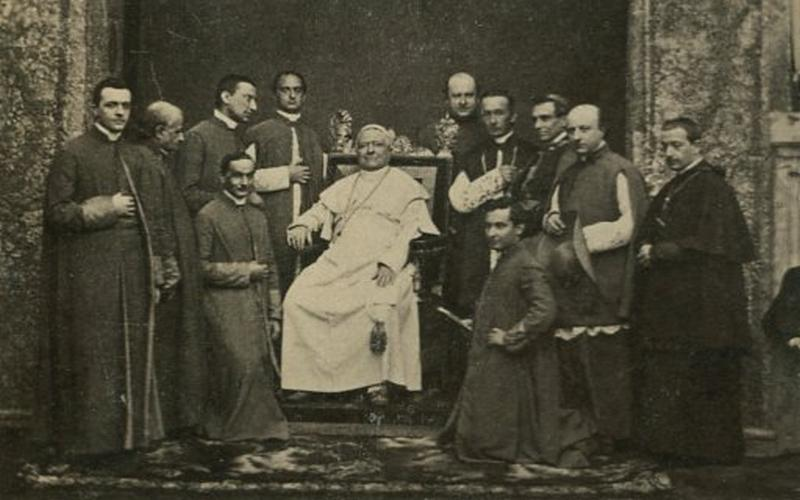 Pope Pius IX surrounded by cerlics.